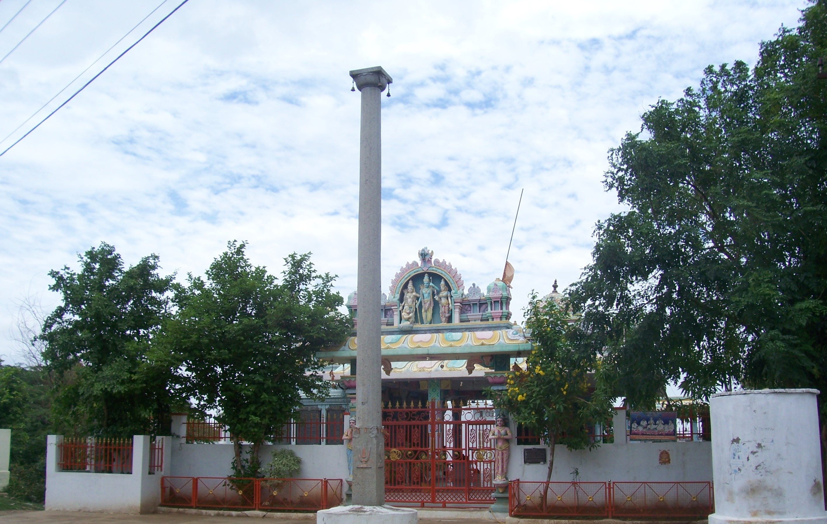 temple